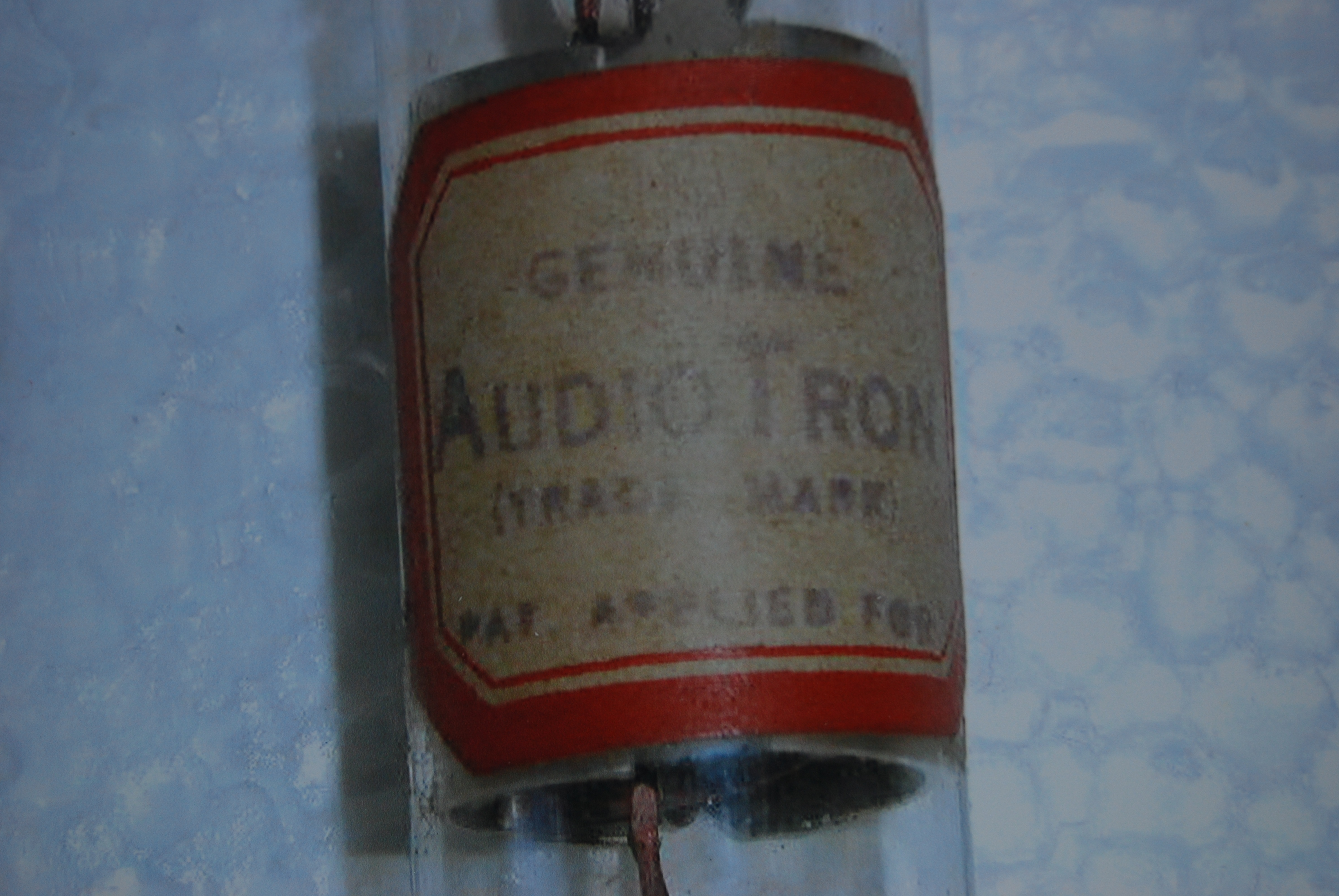 All Audio Trons from 1915-1917 used a paper label like this to identify the tube. The label often came off over time. Later Cunningham would have the identifications etched on the glass.